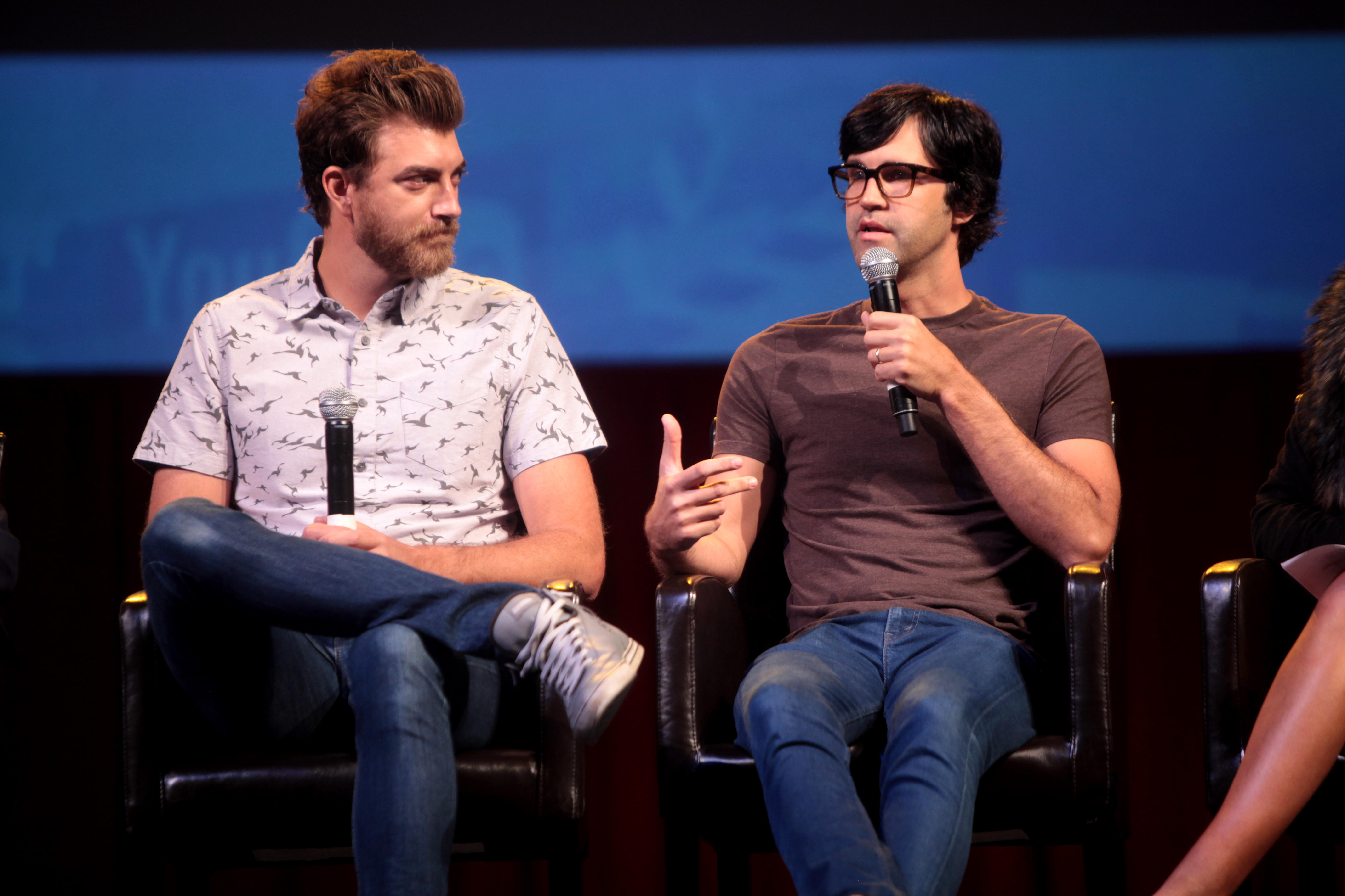 Rhett and Link at 2014 VidCon